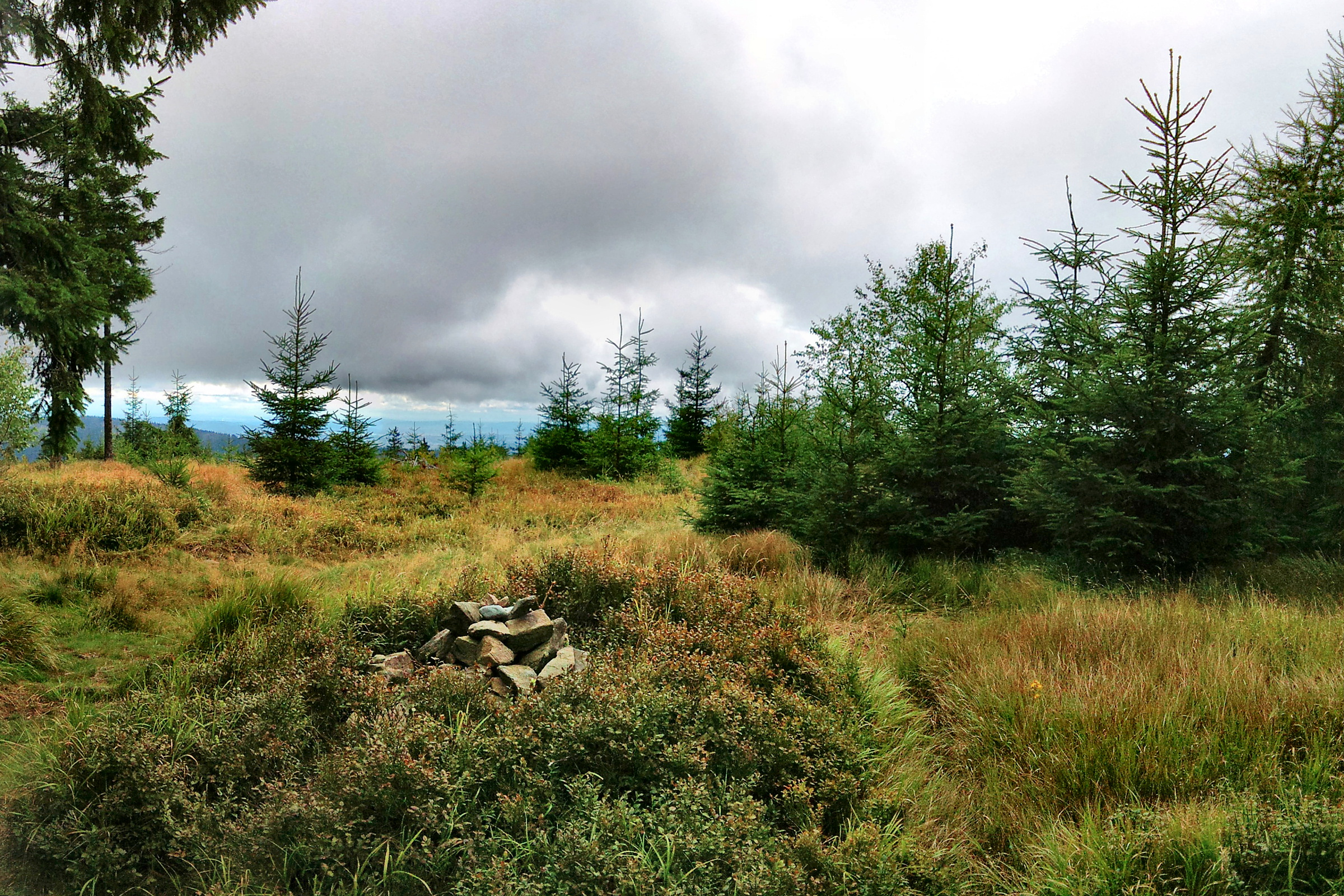 Summit of Jeřáb in Hanušovická vrchovina.